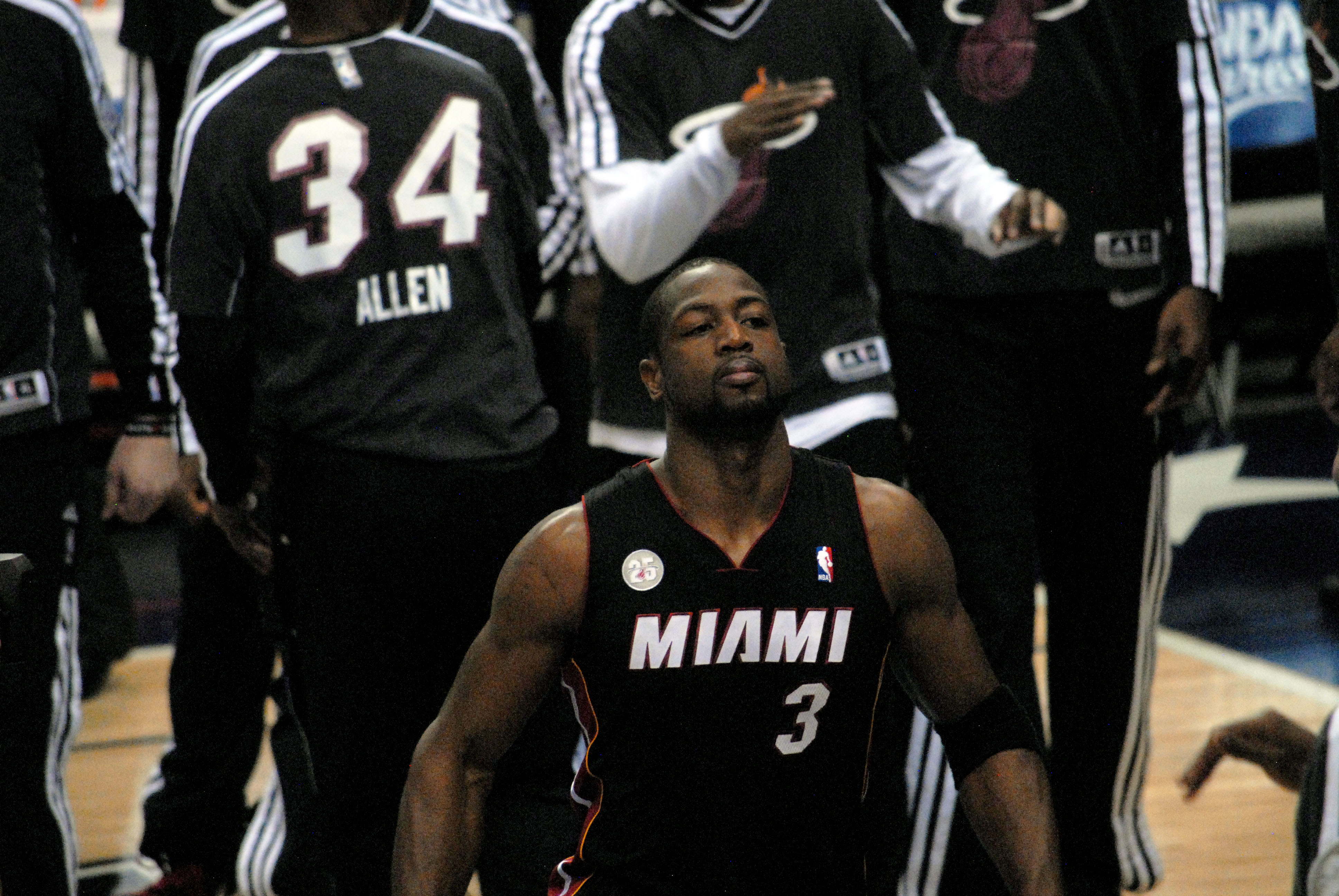 Dwyane Wade with the Miami Heat